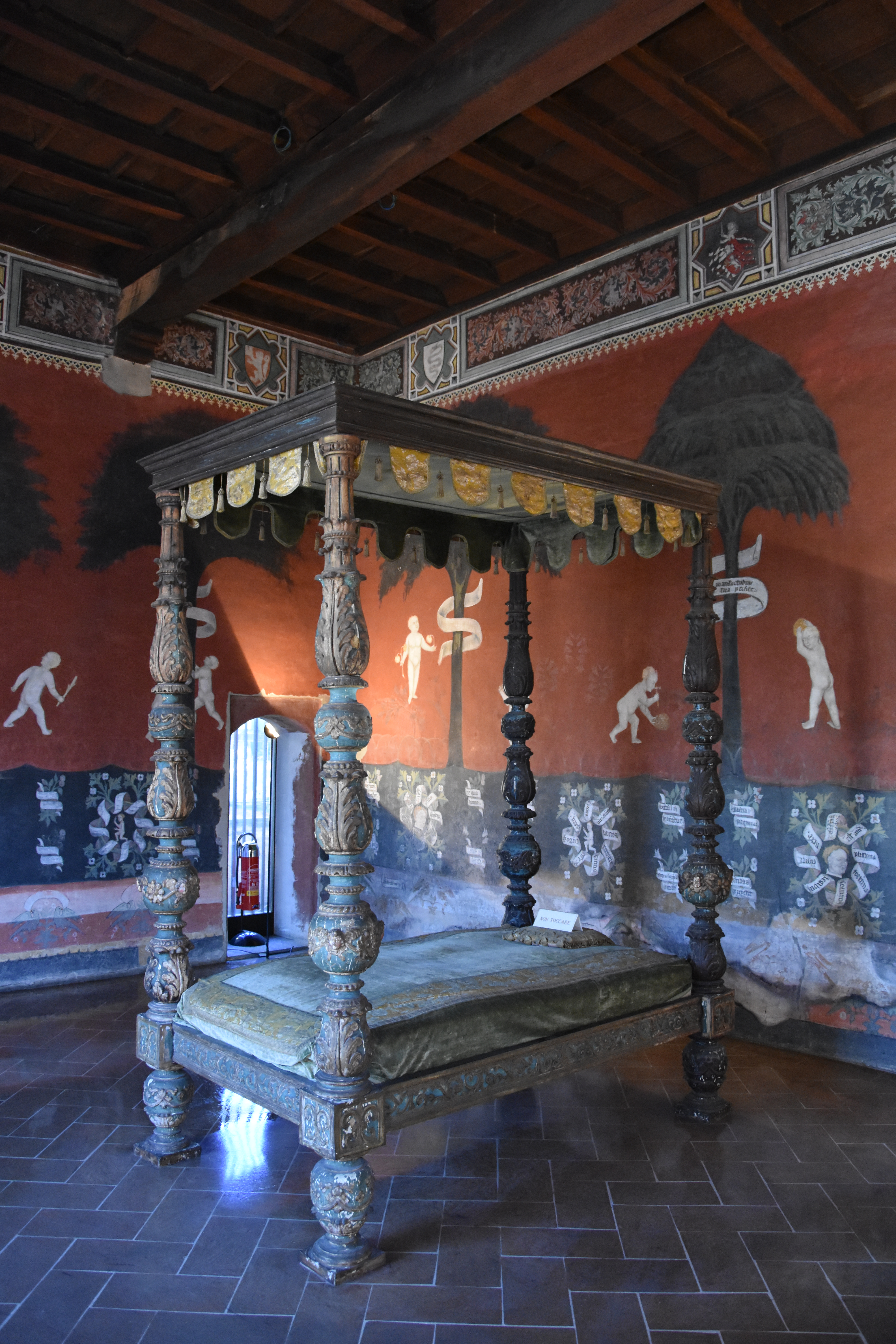 Interior of Palazzo Branda Castiglioni in Castiglione Olona, province of Varese, Italy.